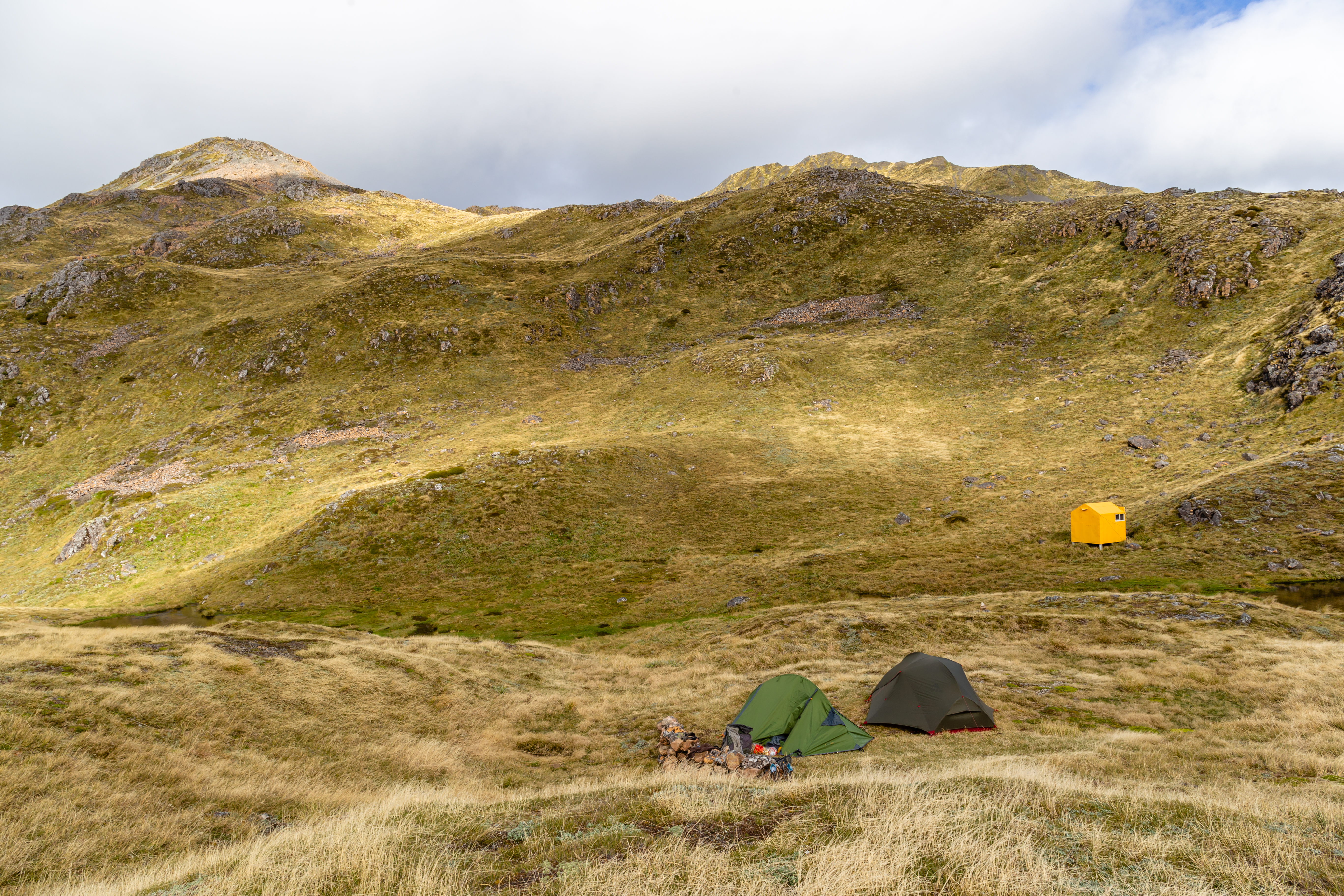 Tents and Brass Monkey Bivouac, Lewis Pass, New Zealand